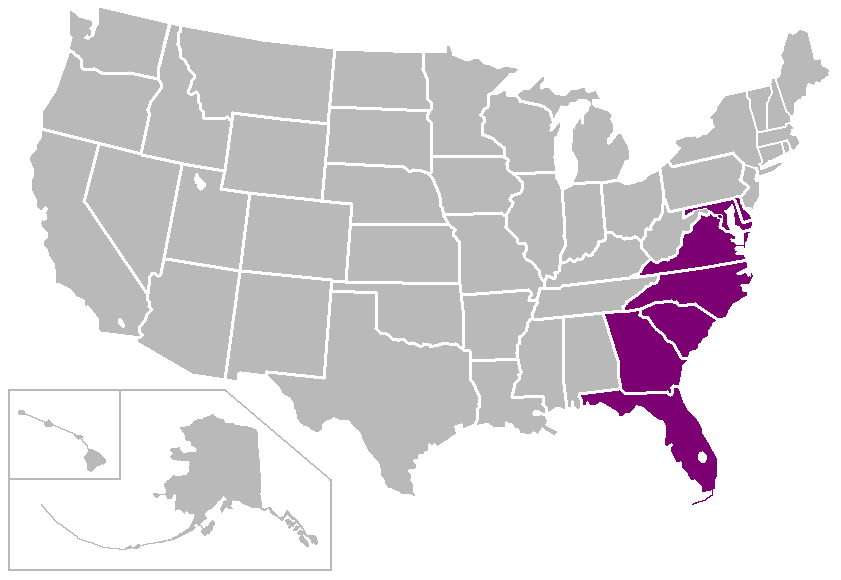 updated MEAC map